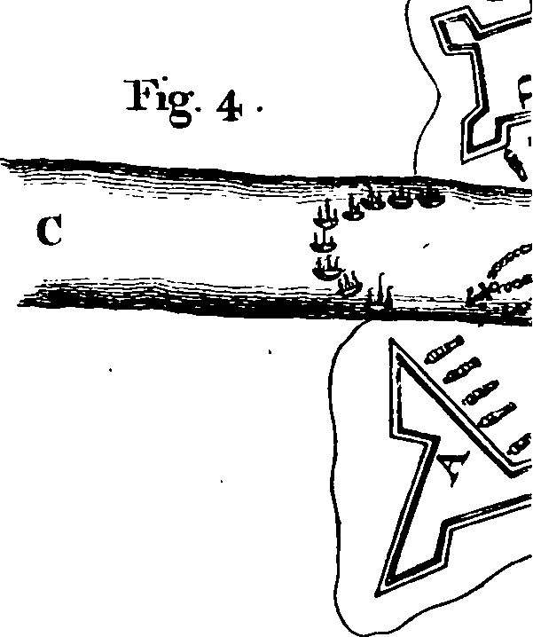 Fleuron from book: The seaman's vade-mecum and defensive war by sea: containing a maritime dictionary; the proportions of rigging, masts and yards; Weight of Anchors; Sizes and Weight of Cables and Cordage; List of the Navy. The Words of Command in exercising the small Arms, Bayonet, Granadoes, and great Guns, Duty of Officers, &c. Also shewing how to prepare a merchant-ship for a close fight, through the Bulk-Heads, Coamings, Loop-Holes, &c. with the Advantages to be taking in Chacing, considered, under all Positions in respect to Wind and Tide. Defensive Fighting; Shewing how Merchant - Ships are to act, in Fleets, when Canonaded or Boarded by the Enemy. Naval Fortification; The Advantages of Mooring considered, in respect to Wind and Tide; and how to lay Booms in Rivers, and raise Redoubts to defend them. An Essay on Naval Book - Keeping; Or a regular Method for the Purser, Clerk, Steward, and other Officers to keep an Account of Stores, &c. The Method of forming Signals for sailing in Company, under a Commodore in Time of War; with many other Particulars relating to the Navy, East-India, and Merchant Service. By William Mountaine, Mathematical Examiner to the Honourable Corporation of Trinity-House of Deptlord-Strond, and F.R.S. With additions by John Adams, Teacher of the Mathematics.